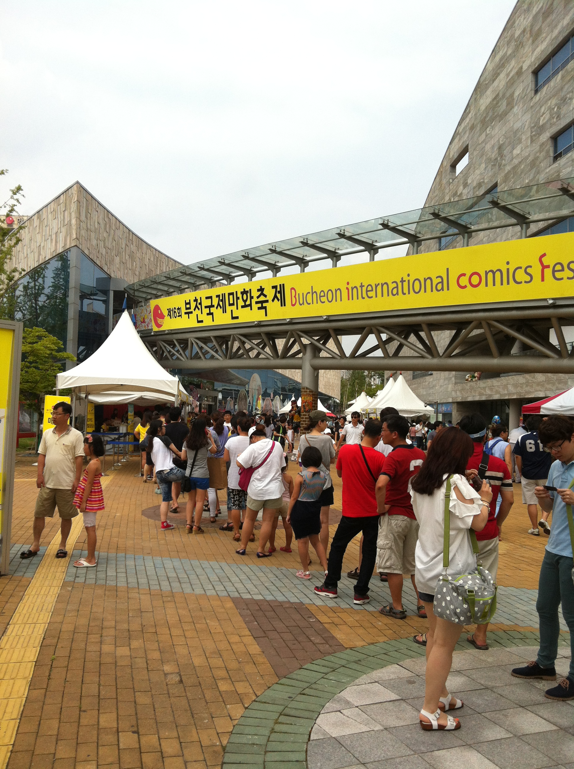 2013 Bucheon International Comics Festival, a comics conventions at Bucheon, Gyeonggi-do, Korea